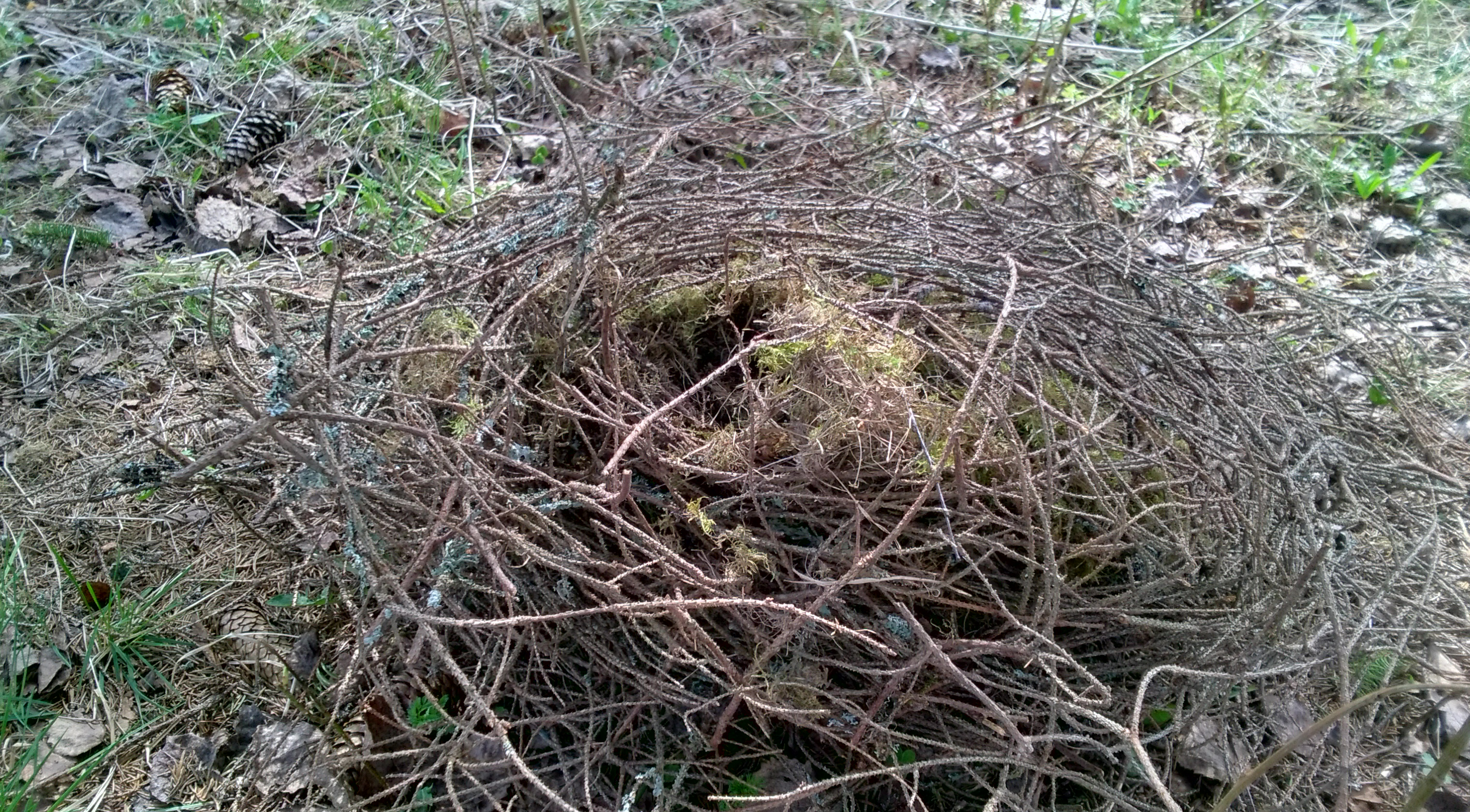 Rejected a squirrel's nest in the country